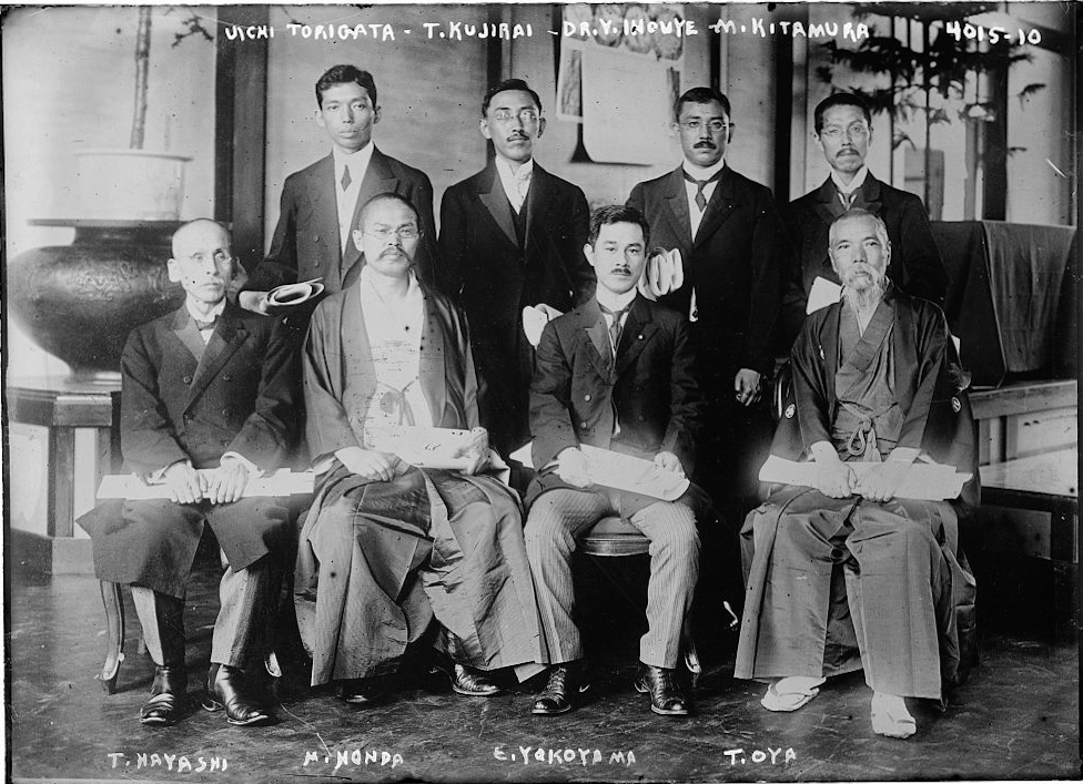 Back row from left to right: Uichi Torikata (鳥潟右一), T. Kujirai (鯨井恒太郎), Dr. Y. Inouye, M. Kitamura (北村政治郎). Front row from left to right: T. Hayashi, M. Honda, E. Yokoyama (横山英太郎), T. Ōya.